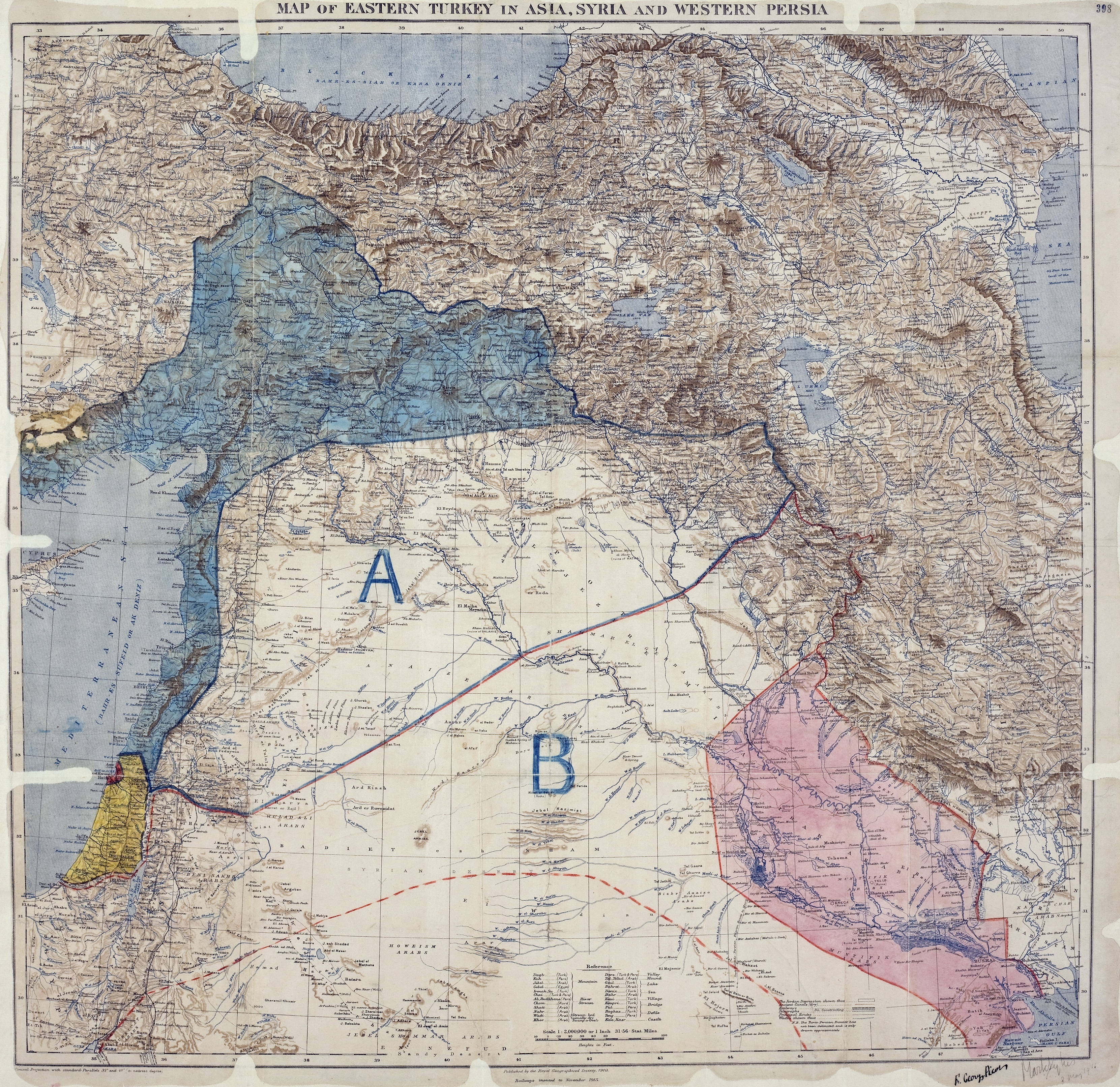 Map of Sykes–Picot Agreement showing Eastern Turkey in Asia, Syria and Western Persia, and areas of control and influence agreed between the British and the French. Royal Geographical Society, 1910-15. Signed by Mark Sykes and François Georges-Picot, 8 May 1916.